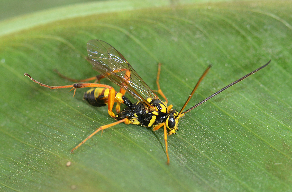 Héron - Belgique - 19/07/13 Photographe : Philippe Moniotte Entomopix.eu